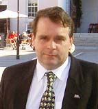 Neil Parish MEP for Gibraltar and the South West